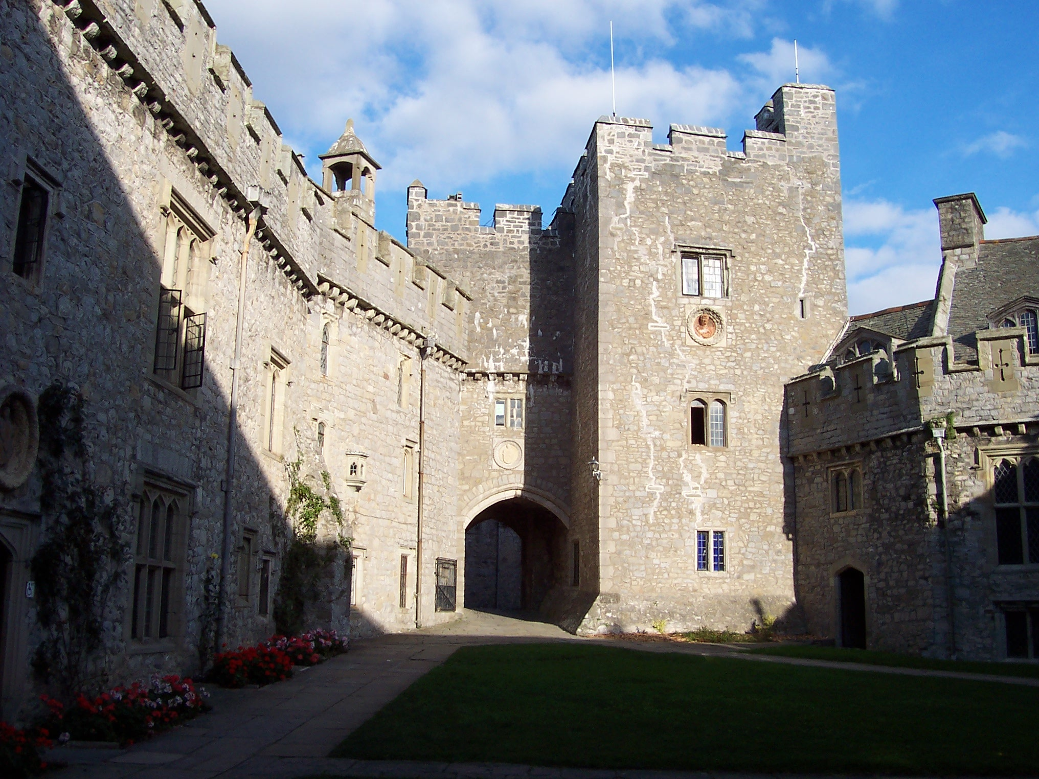 Atlantic College, Wales